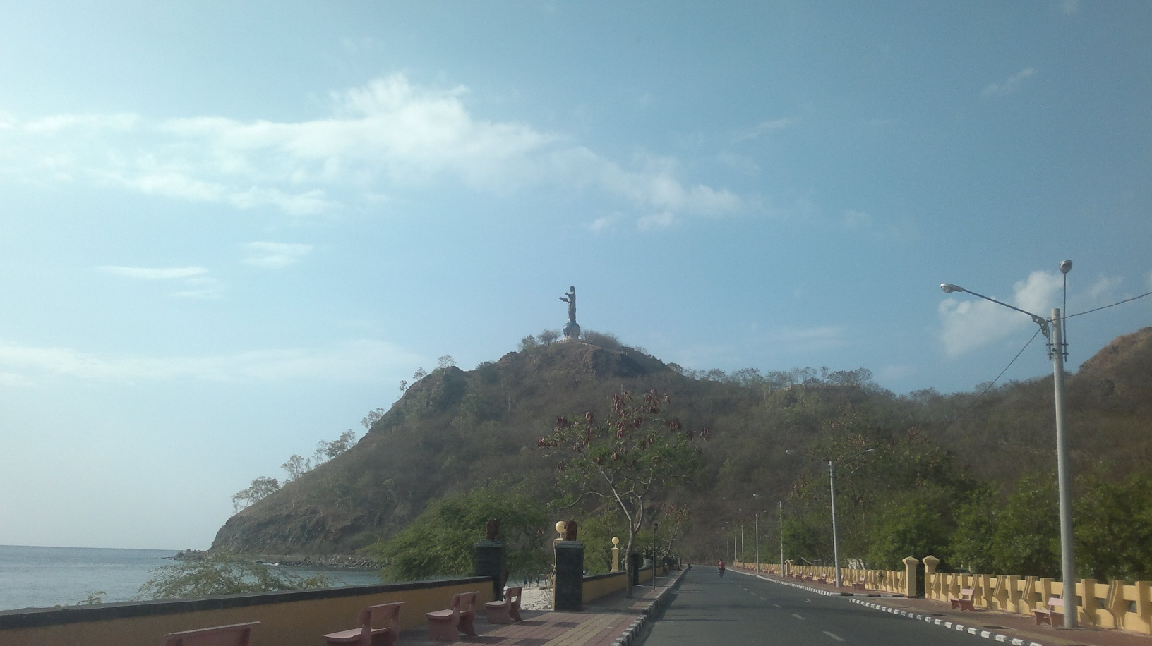 The Critso Rei Statue near Dili, Timor Leste